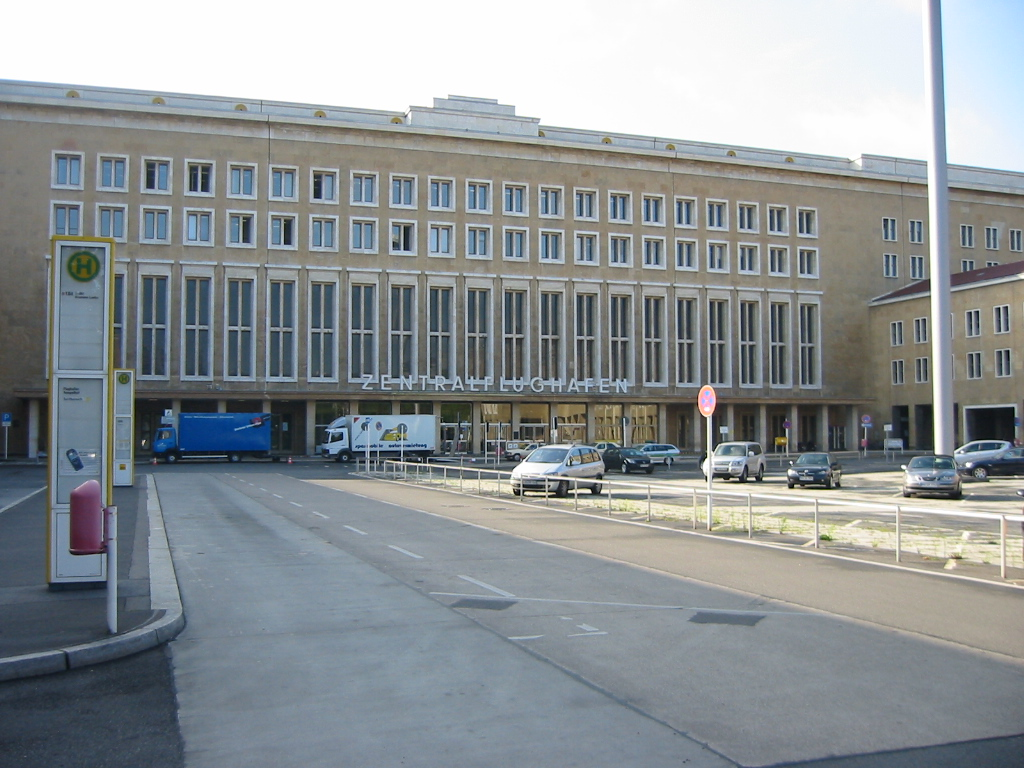 The entrance to Berlin Tempelhof Airport